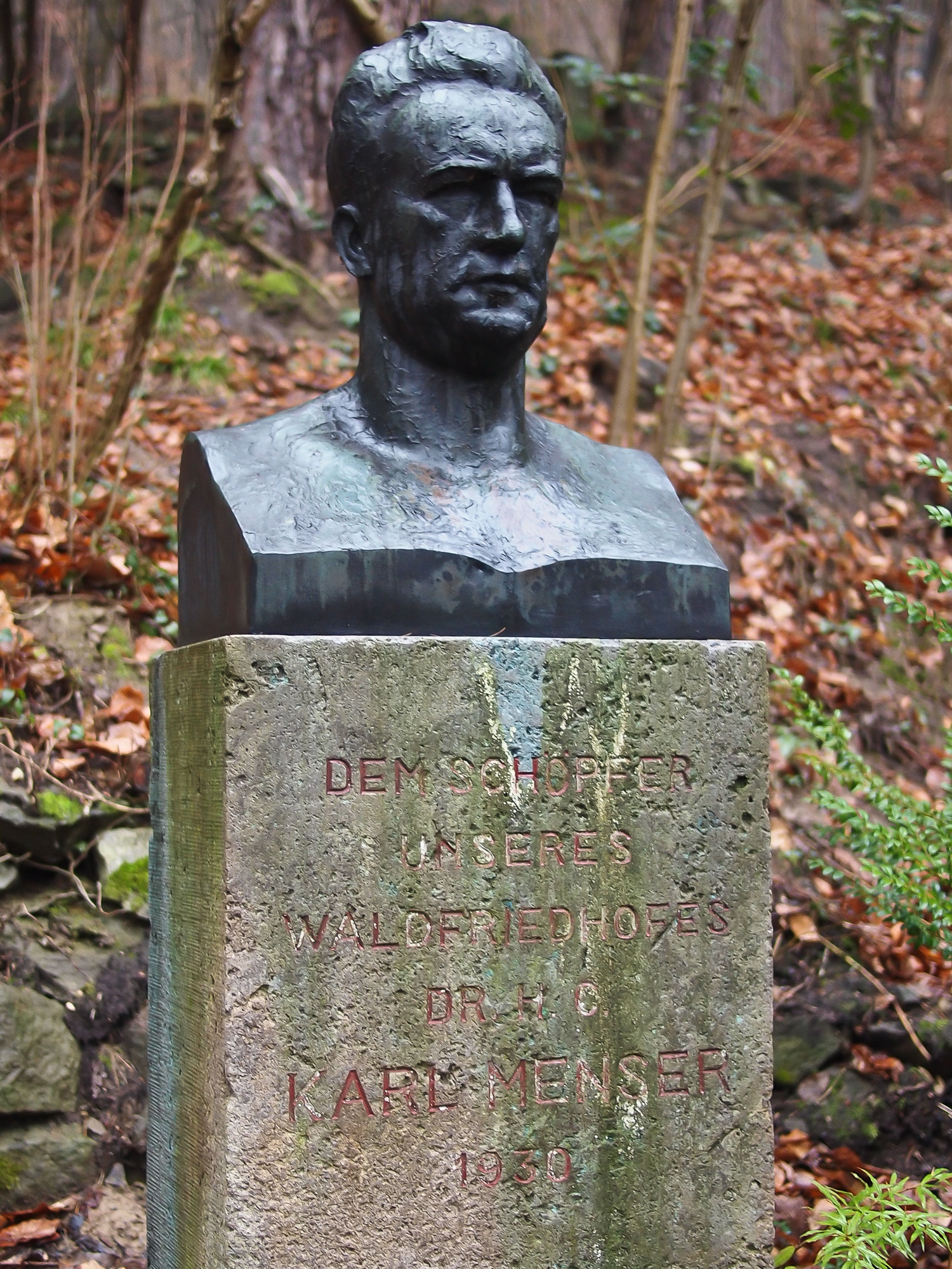 Bust of Dr. H.C. Karl Menser the builder of the Forest Cemetery Rhöndorf.